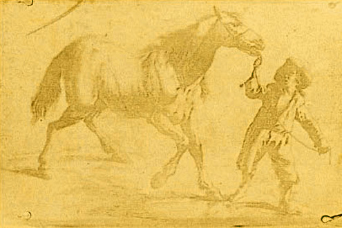 The oldest heliographic engraving known in the world. It is a reproduction of a 17th century Flemish engraving, showing a man leading a horse. It was made by the French inventor Nicéphore Niépce in 1825, with an heliography technical process. The Bibliothèque nationale de France bought it for €450,000 in 2002, deeming it as a "national treasure".